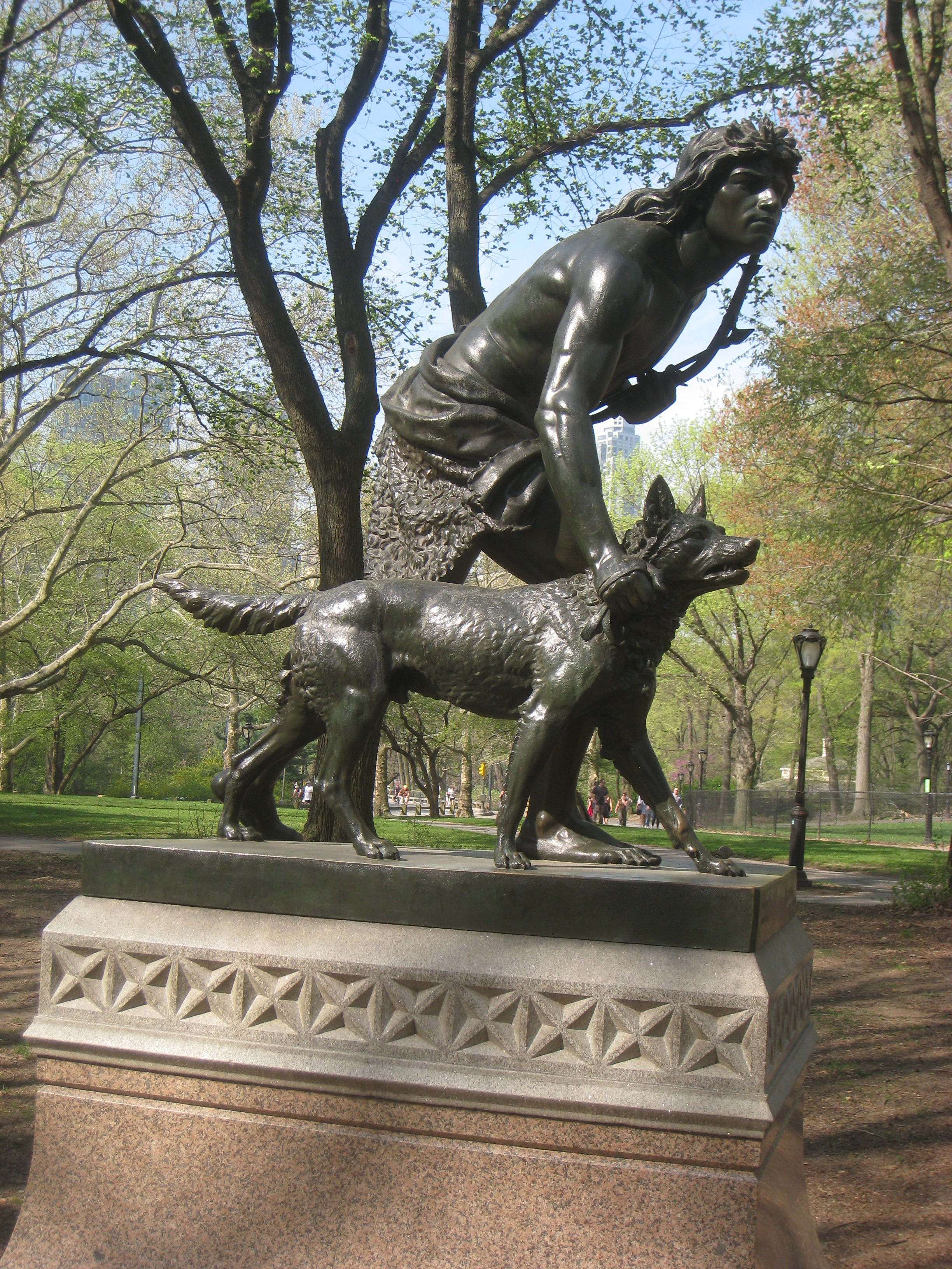 "Indian Hunter" by John Quincy Adams Ward (1830-1910), Central Park, New York City, New York, USA.